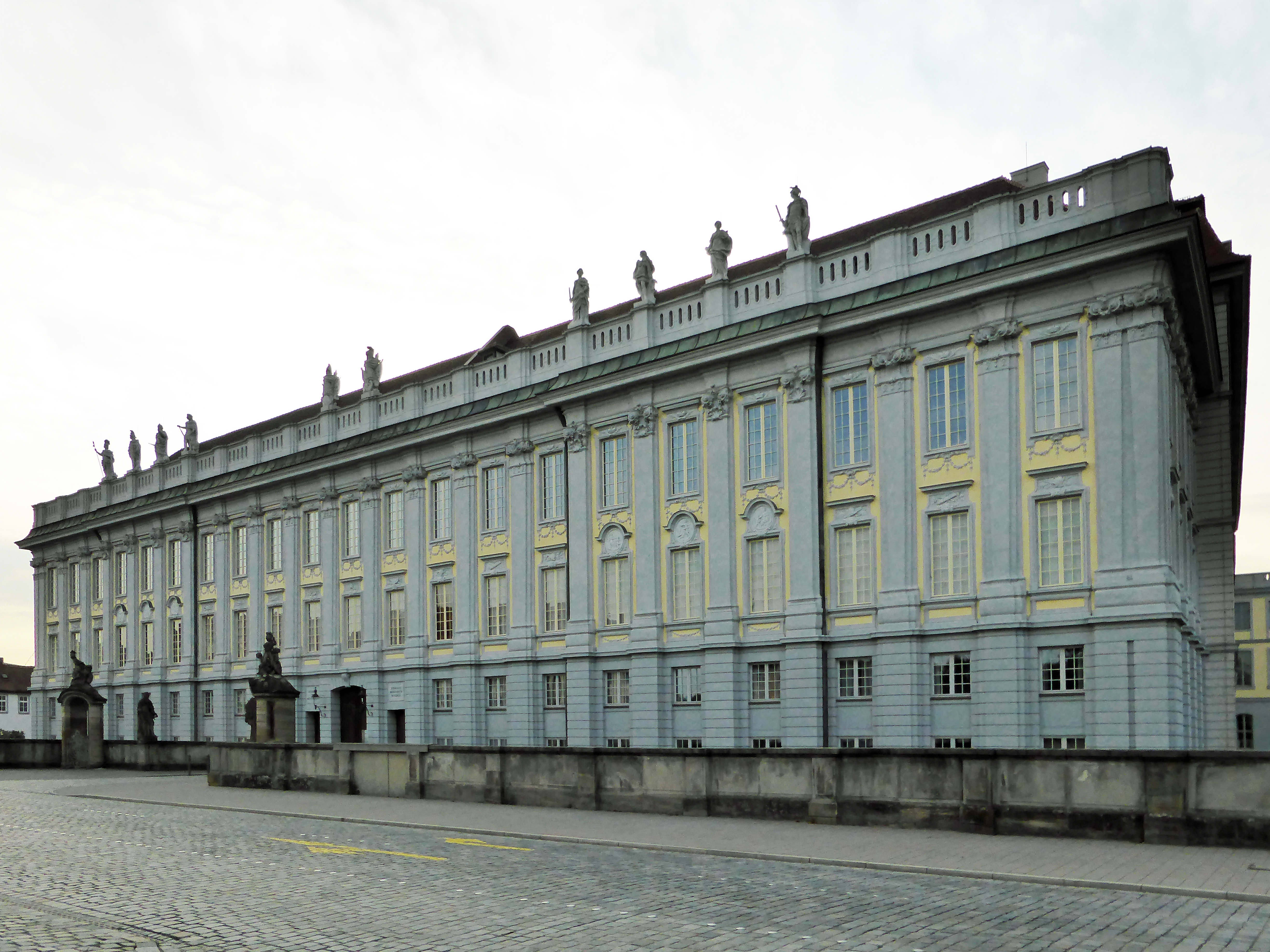 Germany, Bayern, Ansbach